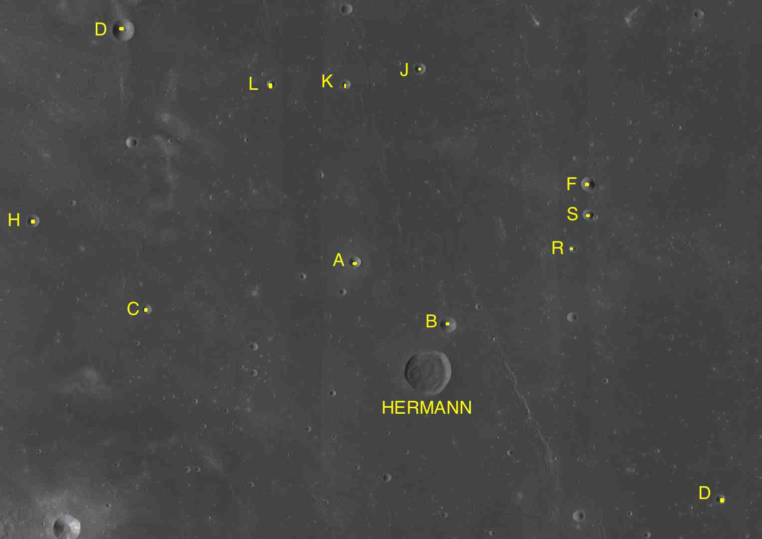 Parts of the charts LAC-56 and LAc-74 used for the presentation